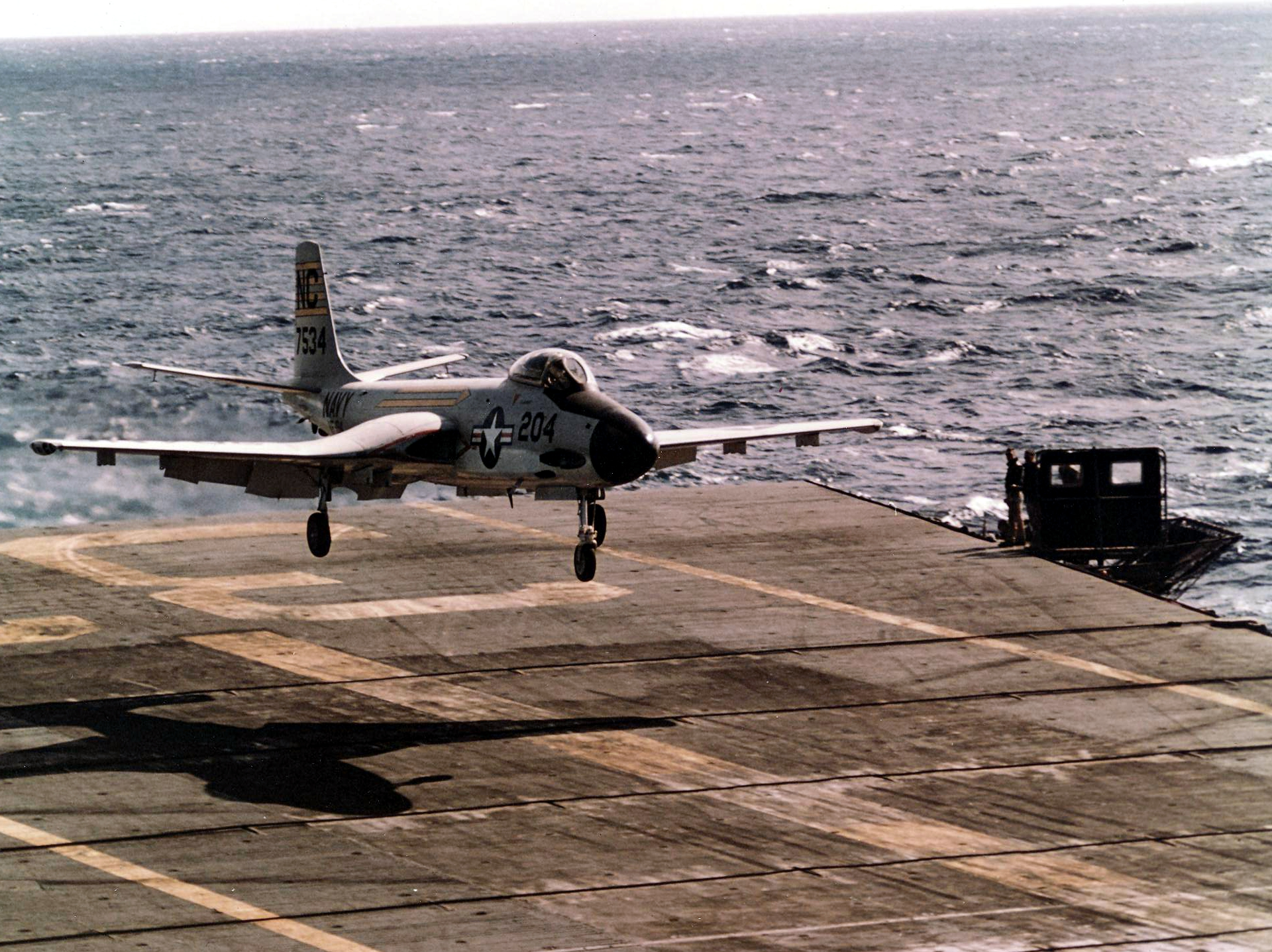 A U.S. Navy McDonnell F2H-3 Banshee (BuNo 127534) from Fighter Squadron VF-194 "Yellow Devils" landing aboard the aircraft carrier USS Kearsarge (CVA-33). VF-194 was assigned to Air Task Grouß 3 (ATG-3) aboard the Kearsarge for a deployment to the Western Pacific from 9 August 1957 to 2 April 1958.